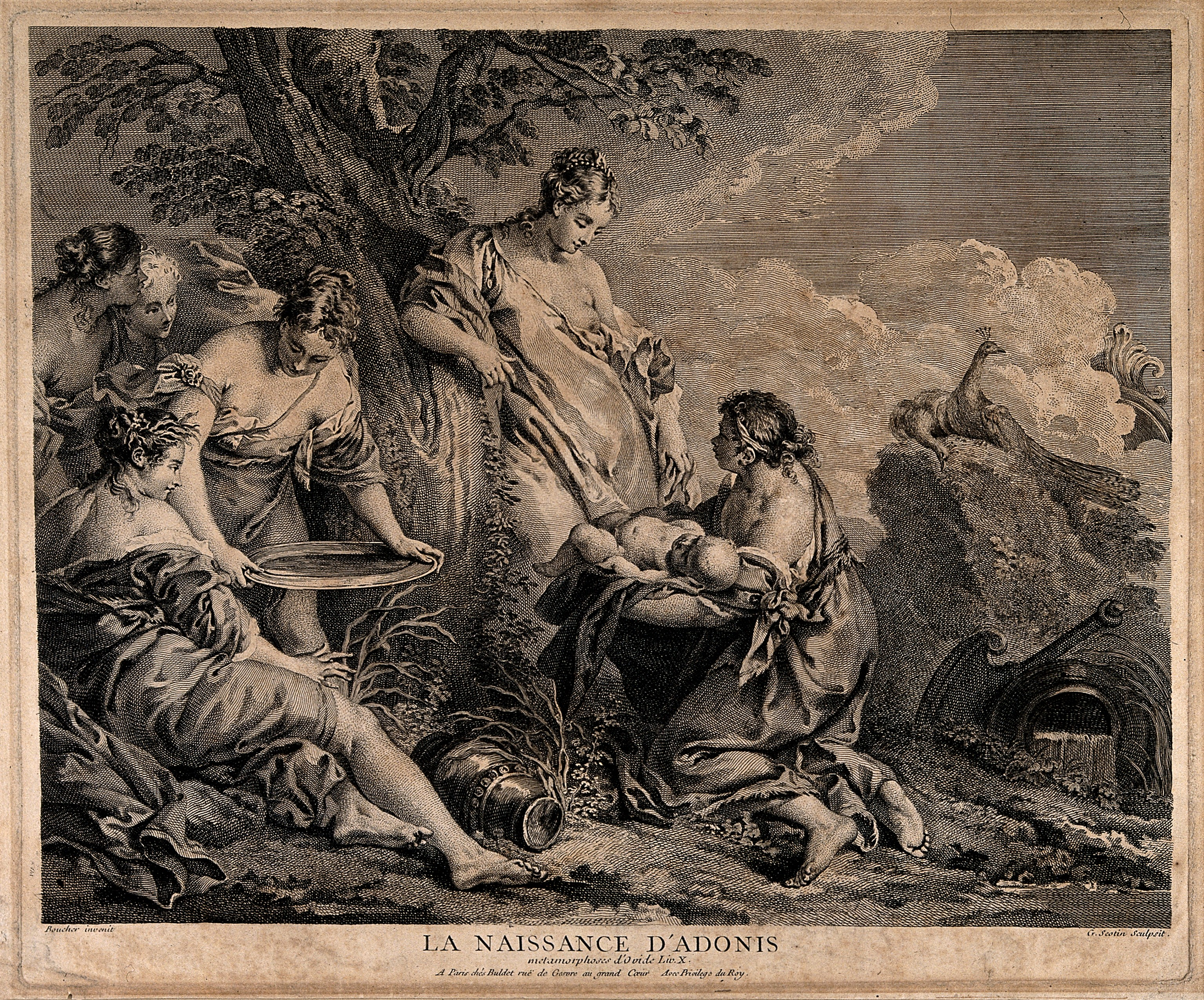 Nymphs holding the new born Adonis next to a myrrh tree representing Myrrha his mother amidst great rural splendor. Engraving by G. Scotin after F. Boucher. Iconographic Collections Keywords: Gérard Jean-Baptiste Scotin; Myrrha; Francois Boucher